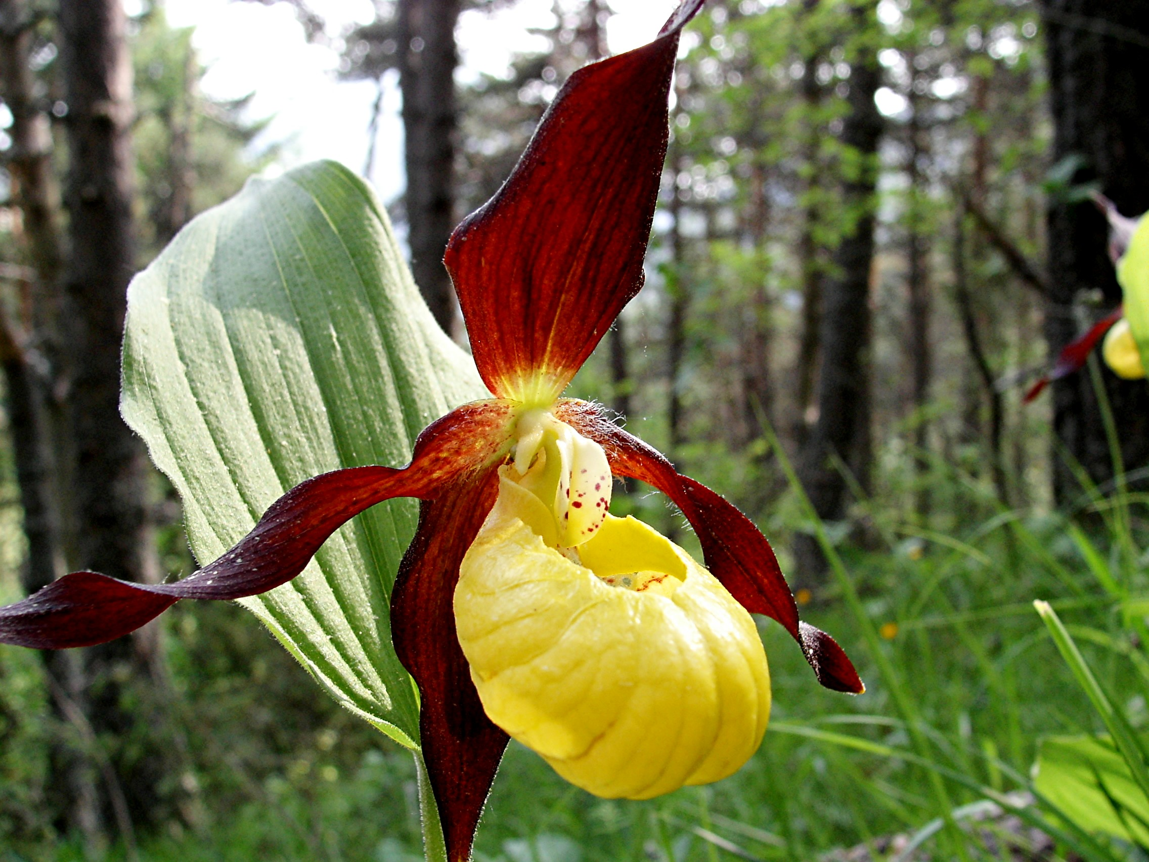 Cypripedium calceolus , pine forest, Vercors Massif, France